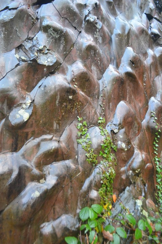 Flute casts at Donkey Quarry near Broughton in Furness, Cumbria, England. These are excellent turbidite sequence flute casts. Possibly the best exposure in the UK. They are part of the Gawthwaite Formation (425 Ma, Silurian). These are shelf deposits which saw fast flows of sediment settle out into various grades. This is the bottom of a flow which scoured out the seabed (Iapetus) forming these features. They show the bed has been tilted by 90 degrees.